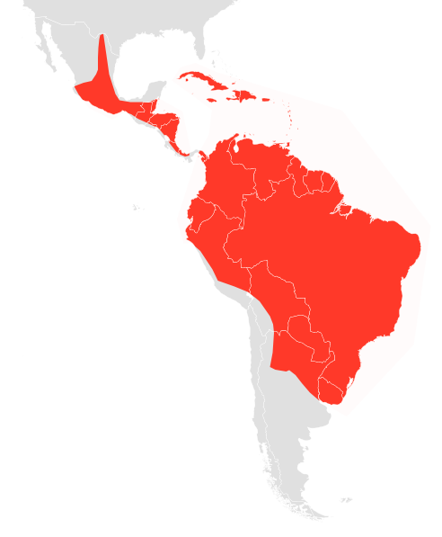 Distribution of Molossus molossus